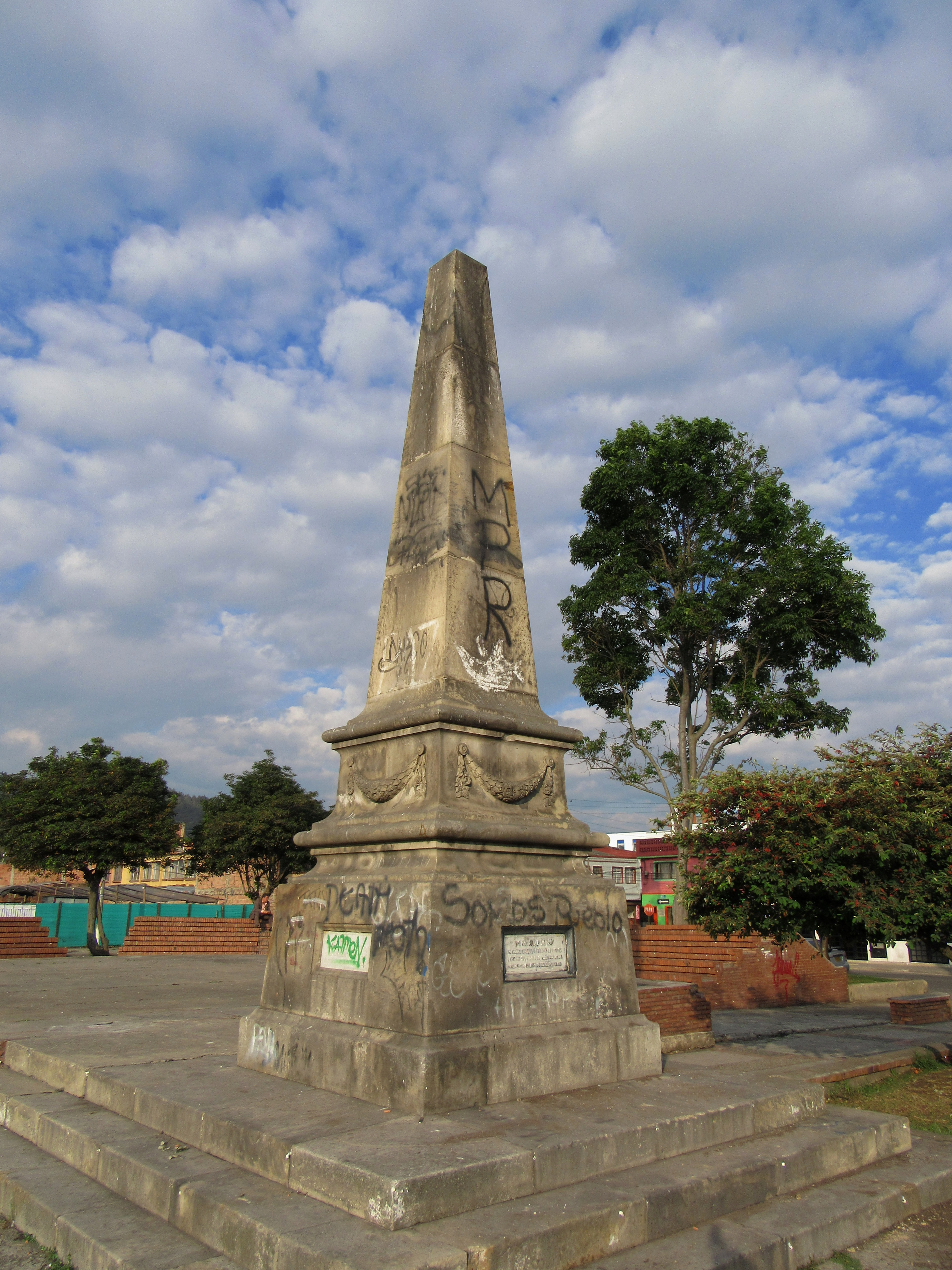 Facatativá